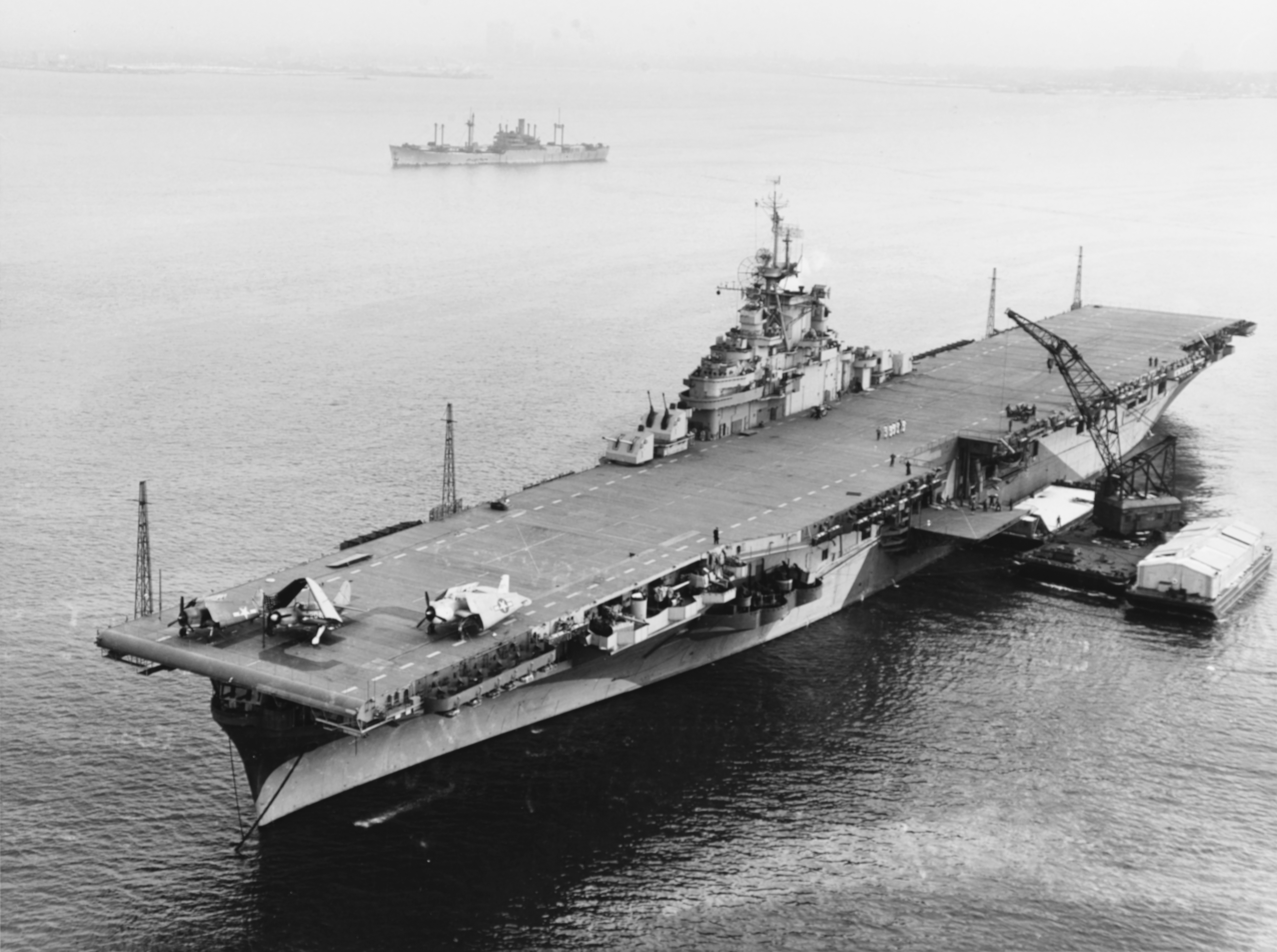 The U.S. Navy aircraft carrier USS Bon Homme Richard (CV-31) anchored in New York harbor (USA), with supply barges alongside, on 9 January 1945. Photographed from a Naval Air Station New York, aircraft, flying at an altitude of 90 meters.